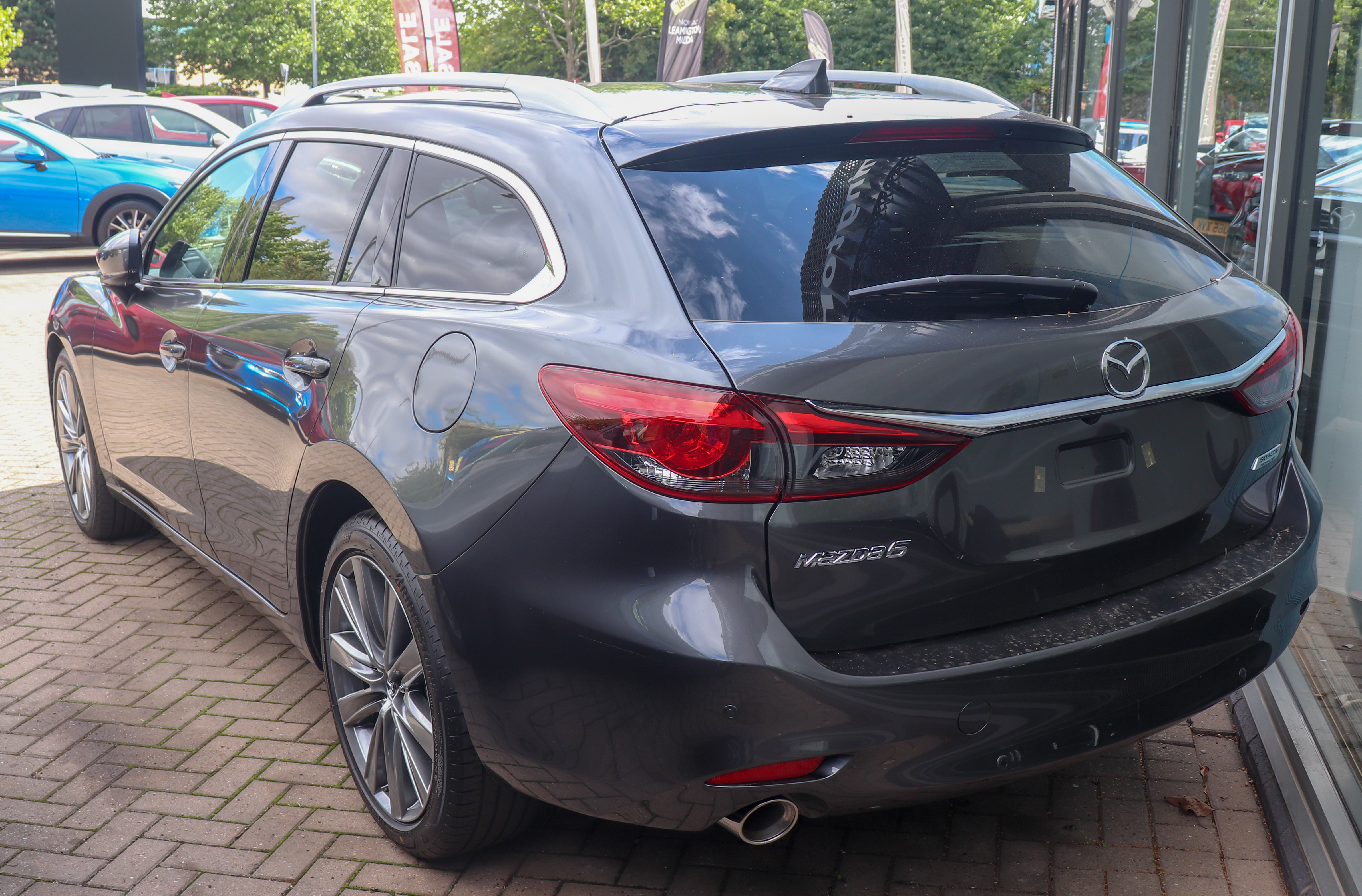 2018 Mazda6 Estate facelift Rear